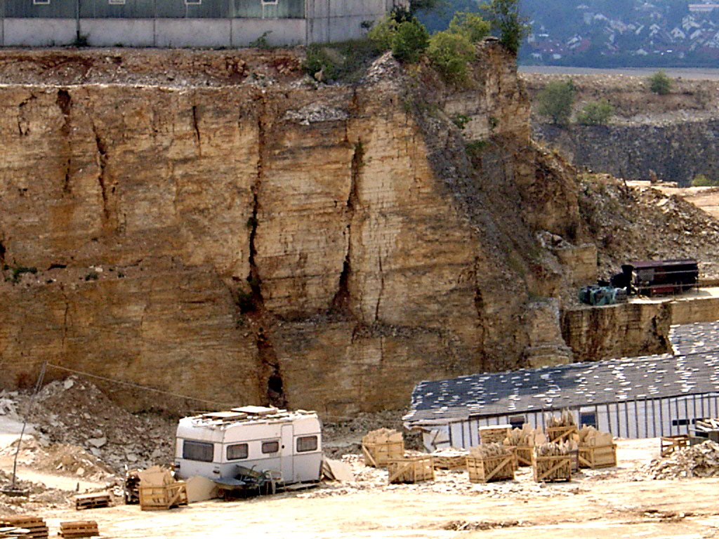 Quarry of Solnhofen Plattenkalk, Bavaria, Germany; preserve of rare assemblage of fossilized organisms.